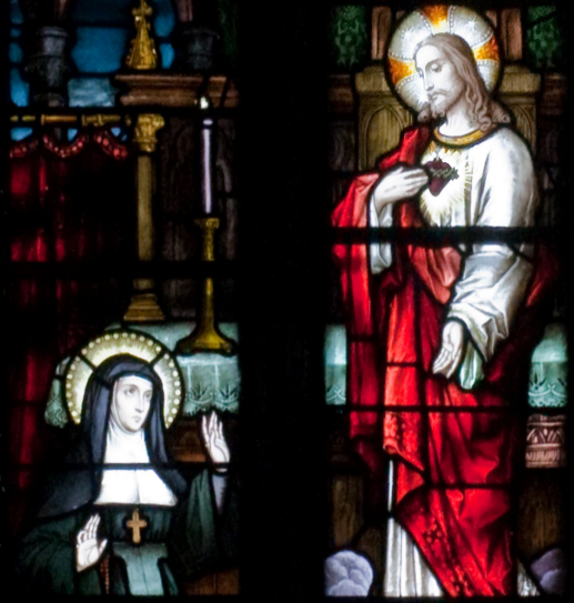 Tuam Cathedral of the Assumption, County Galway, Ireland Detail of a stained glass window in the east wall of the south transept, depicting Marguerite Marie Alacoque how she receives a revelation of the Sacred Heart. Designed and manufactured by Joshua Clarke (1858–1921) and the Harry Clarke Studios (1889–1931).